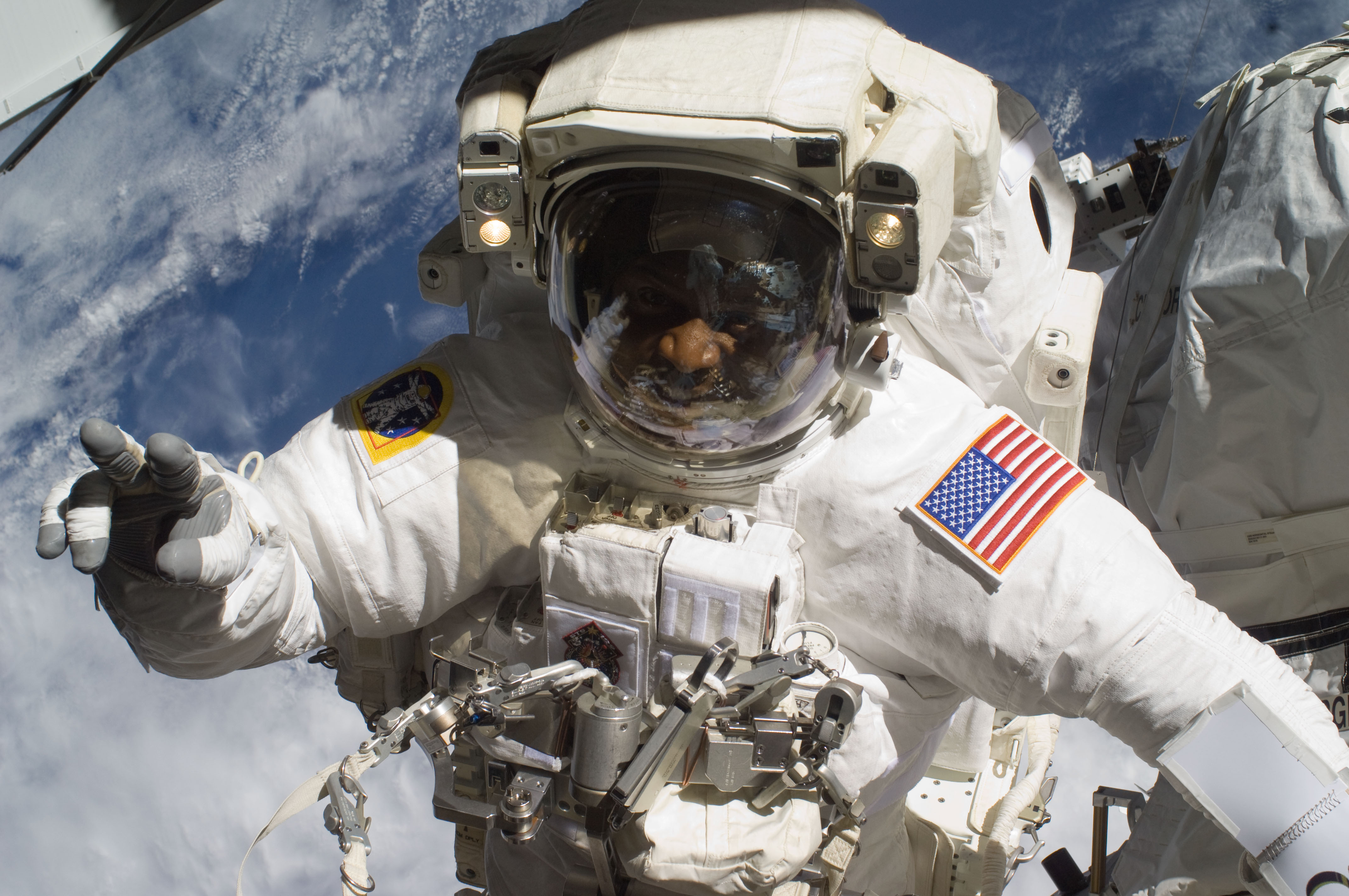 Astronaut Robert L. Satcher Jr., STS-129 mission specialist, participates in the mission's third and final session of extravehicular activity (EVA) as construction and maintenance continue on the International Space Station. During the five-hour, 42-minute spacewalk, Satcher and astronaut Randy Bresnik (out of frame), mission specialist, removed a pair of micrometeoroid and orbital debris shields from the Quest airlock and strapped them to the External Stowage Platform #2, then moved an articulating foot restraint to the airlock, and released a bolt on a starboard truss ammonia tank assembly (ATA) in preparation for an STS-131 spacewalk that will replace the ATA.